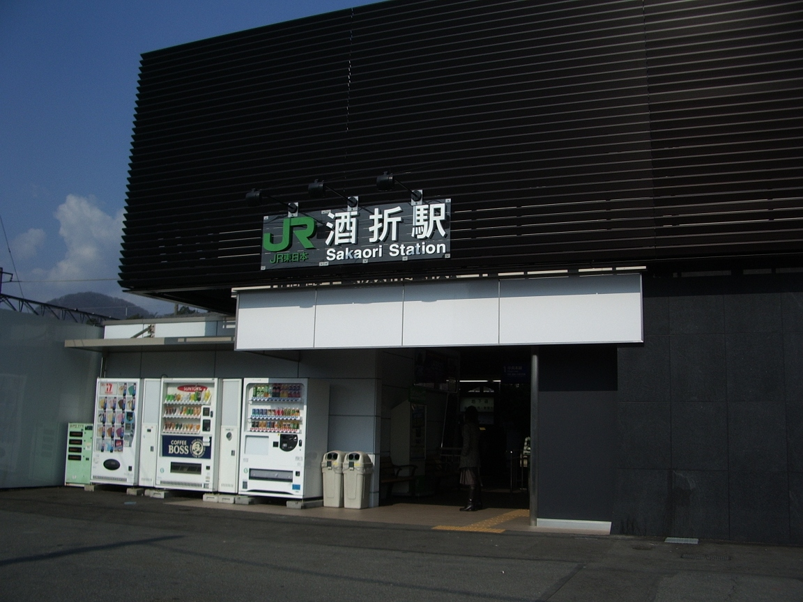 JR East Sakaori Station Bldg.(2006/2～)